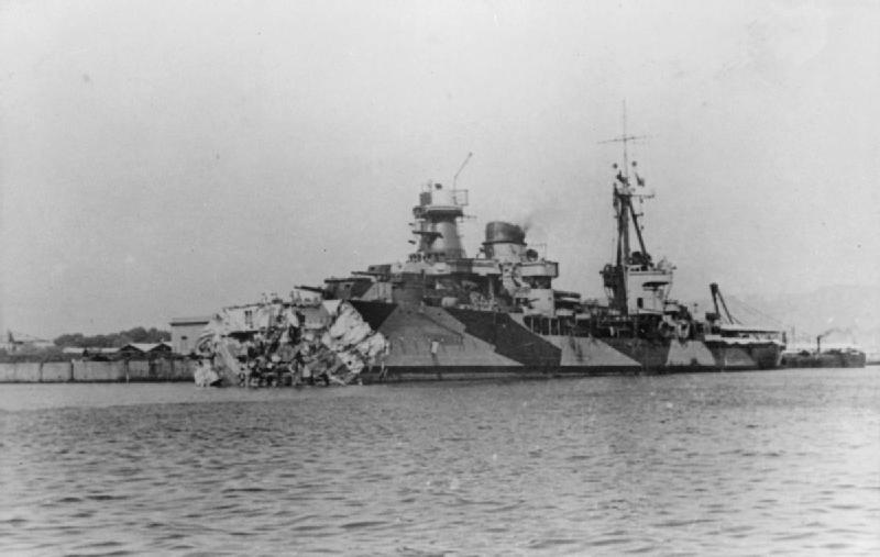 13 August: The Italian Fleet intervenes: The cruiser MUZIO ATTENDOLO at Naples after UNBROKEN's attack on 13 August 1942. She was hit by one 21 inch torpedo which blew off her bows. The target's high speed at the time of the hit is indicated by the way the hull was folded back as far back as the bridge.